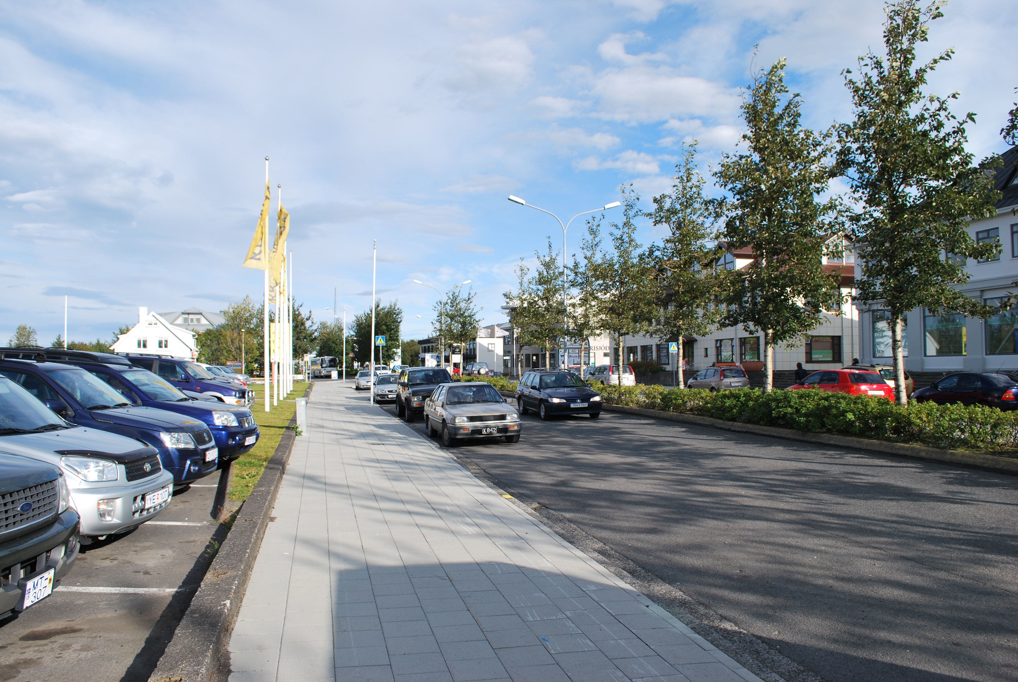 Street in Selfoss town, Iceland